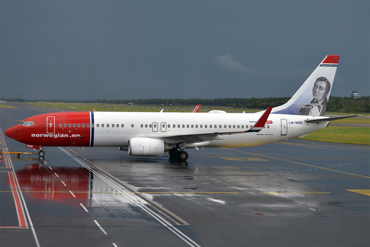 Norwegian Air Shuttle Boeing 737-800 at Tallinn Airport